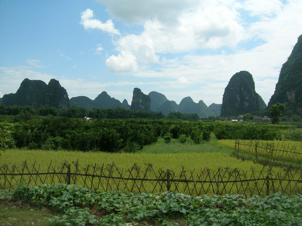 Country landscape near Guilin Guanxi China